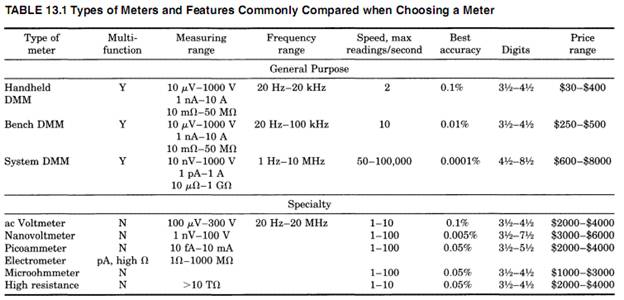 Types of Meters and Features Commonly Compared when Choosing a Meter